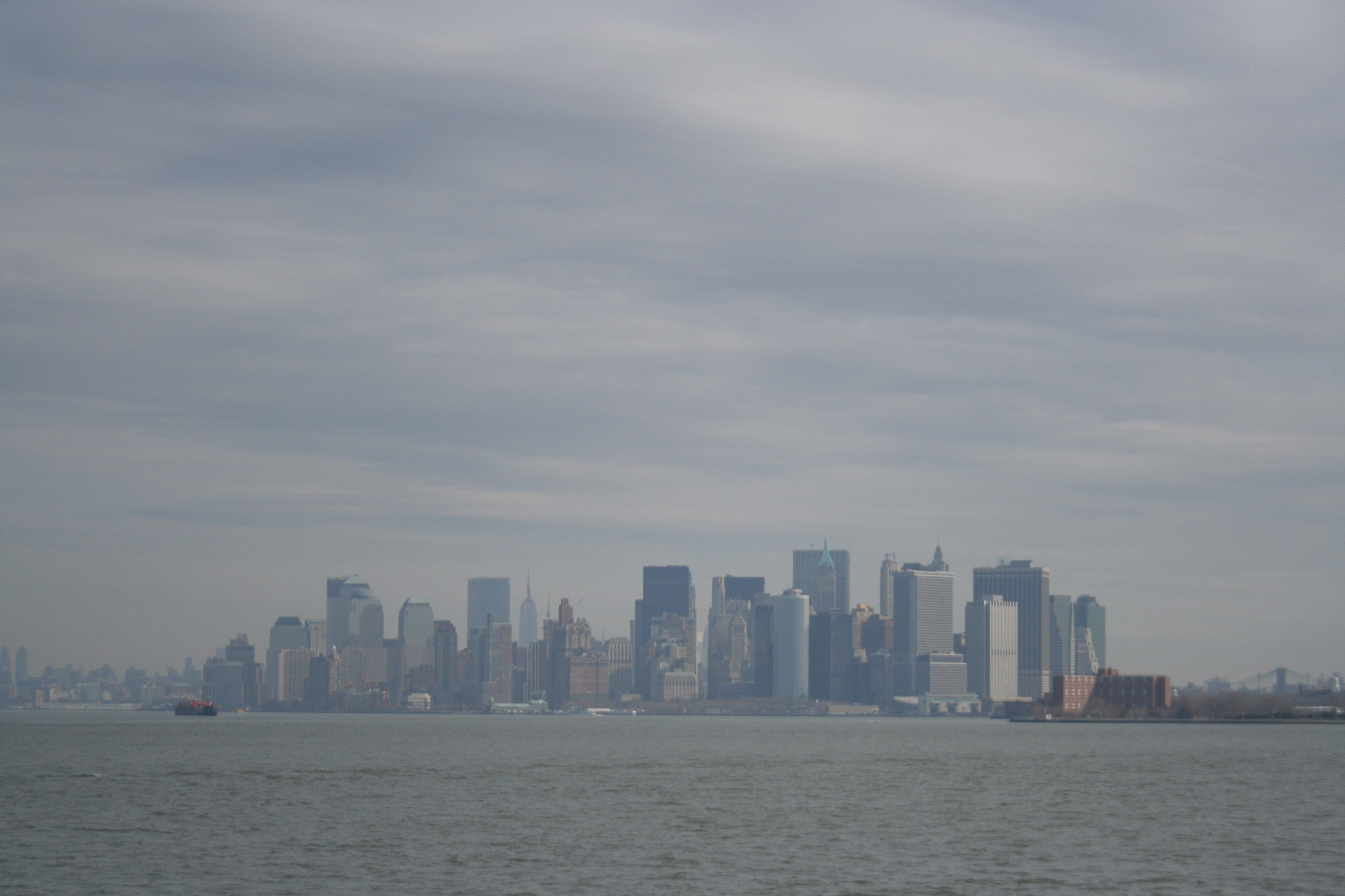 New York - a view from the ferry